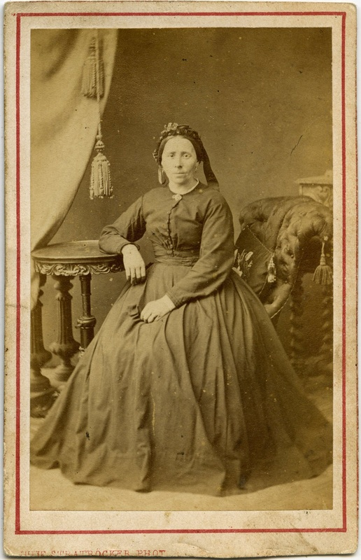 Julie Stratböcker was a Danish photographer